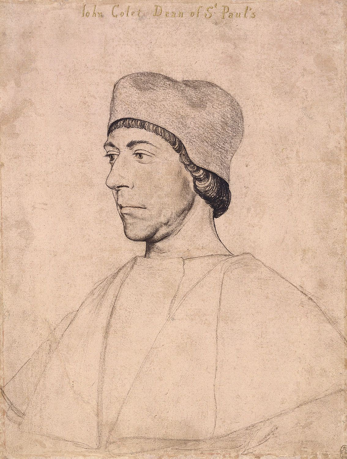 Portrait of John Colet. Coloured chalks reinforced with pen and ink and silverpoint on pink-primed paper, 26.8 × 20.5 cm, Royal Collection, Windsor Castle. Holbein based this drawing of John Colet (1467–1519), the humanist scholar and founder of St Paul's School, on a bust by the sculptor Pietro Torrigiano (1472–1528). Other hands have reinforced Holbein's drawing, particularly in the cap. References Susan Foister, Holbein in England, London: Tate, 2006, ISBN 1854376454, p. 107. K. T. Parker, The Drawings of Hans Holbein at Windsor Castle, Oxford: Phaidon, 1945, OCLC 822974, p. 52.